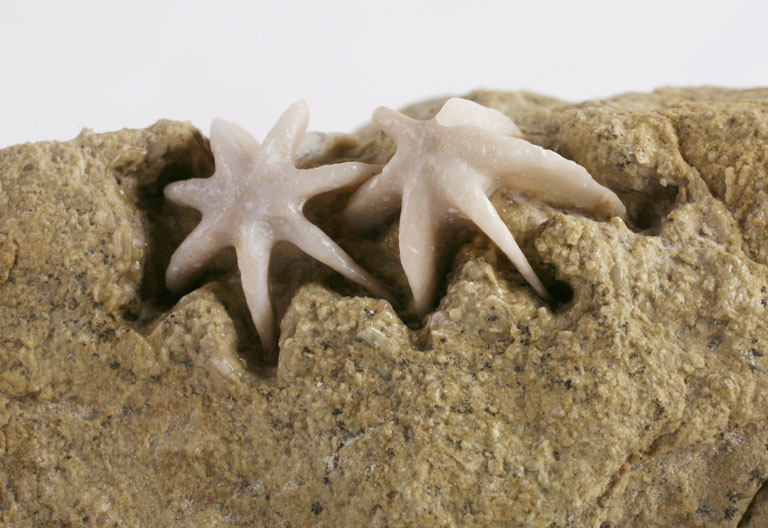 An Evactinopora radiata bryozoan from Jefferson County, Missouri. Now in the permanent collection of The Children’s Museum of Indianapolis.